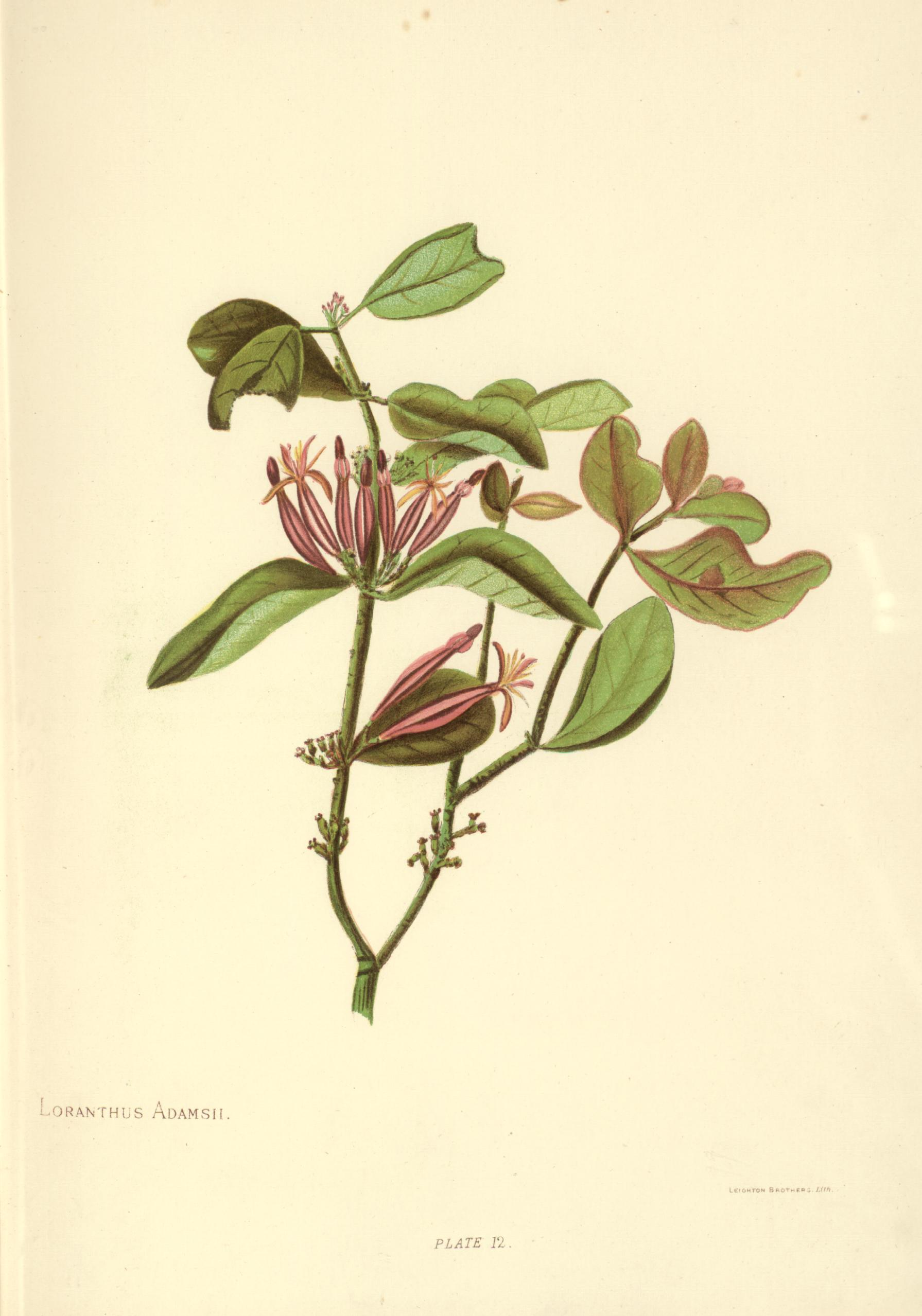 Trilepidea adamsii (previously Loranthus adamsii) by Georgina Burne Hetley. Plate 12 in "The native flowers of New Zealand illustrated in colours ..." (1888)